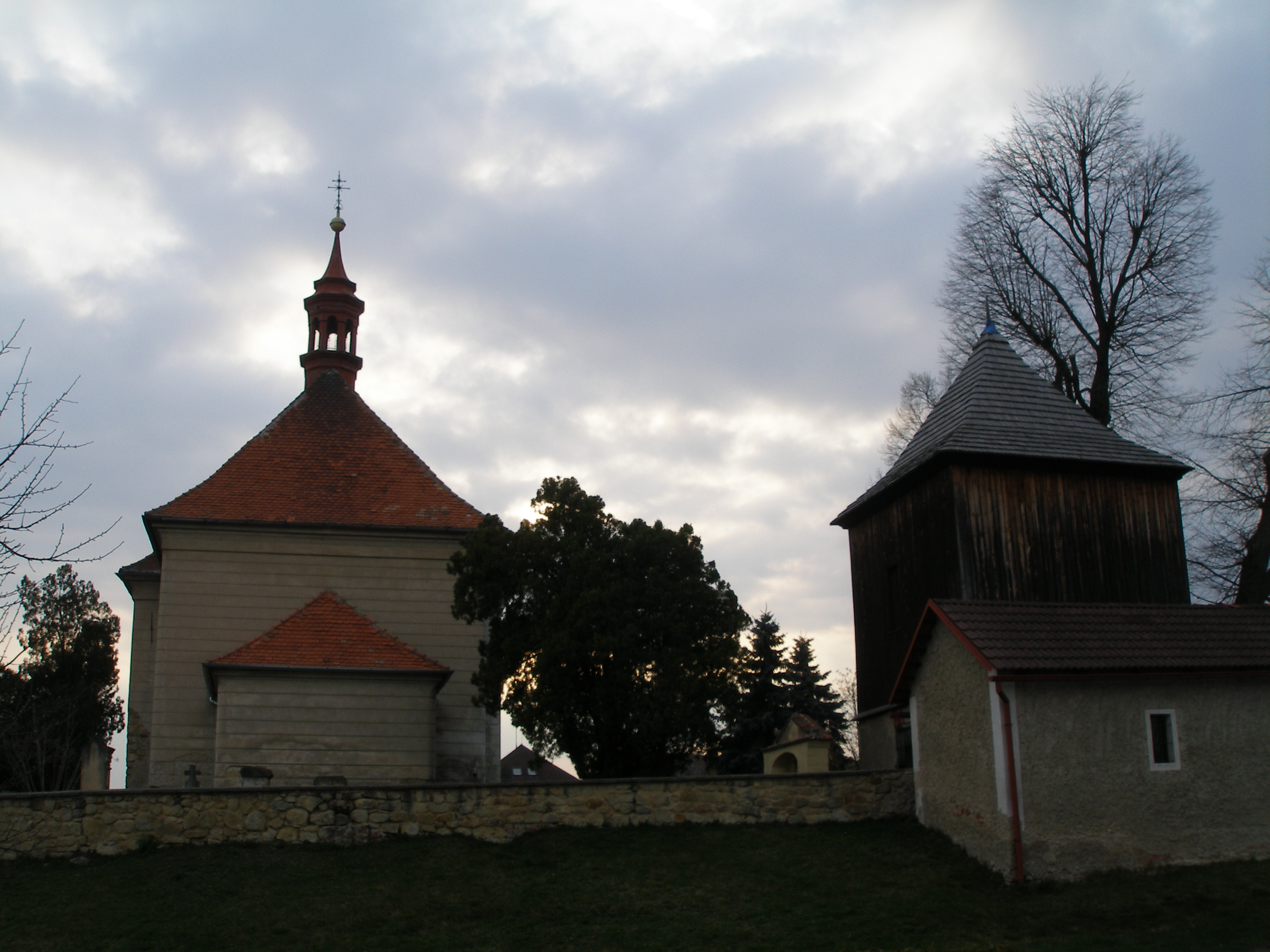 Saints Simon and Jude church in Plazy.